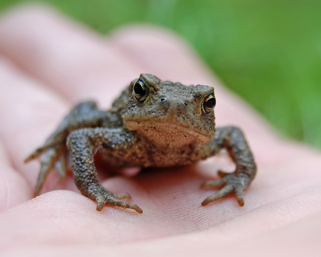 A young toad (Bufo bufo) in the palm of a hand. The original image is available in full resolution at this address.